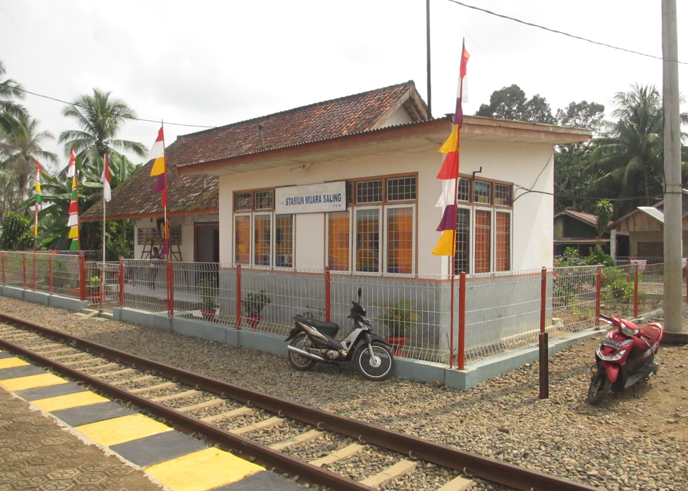 Muarasaling Railway Station.